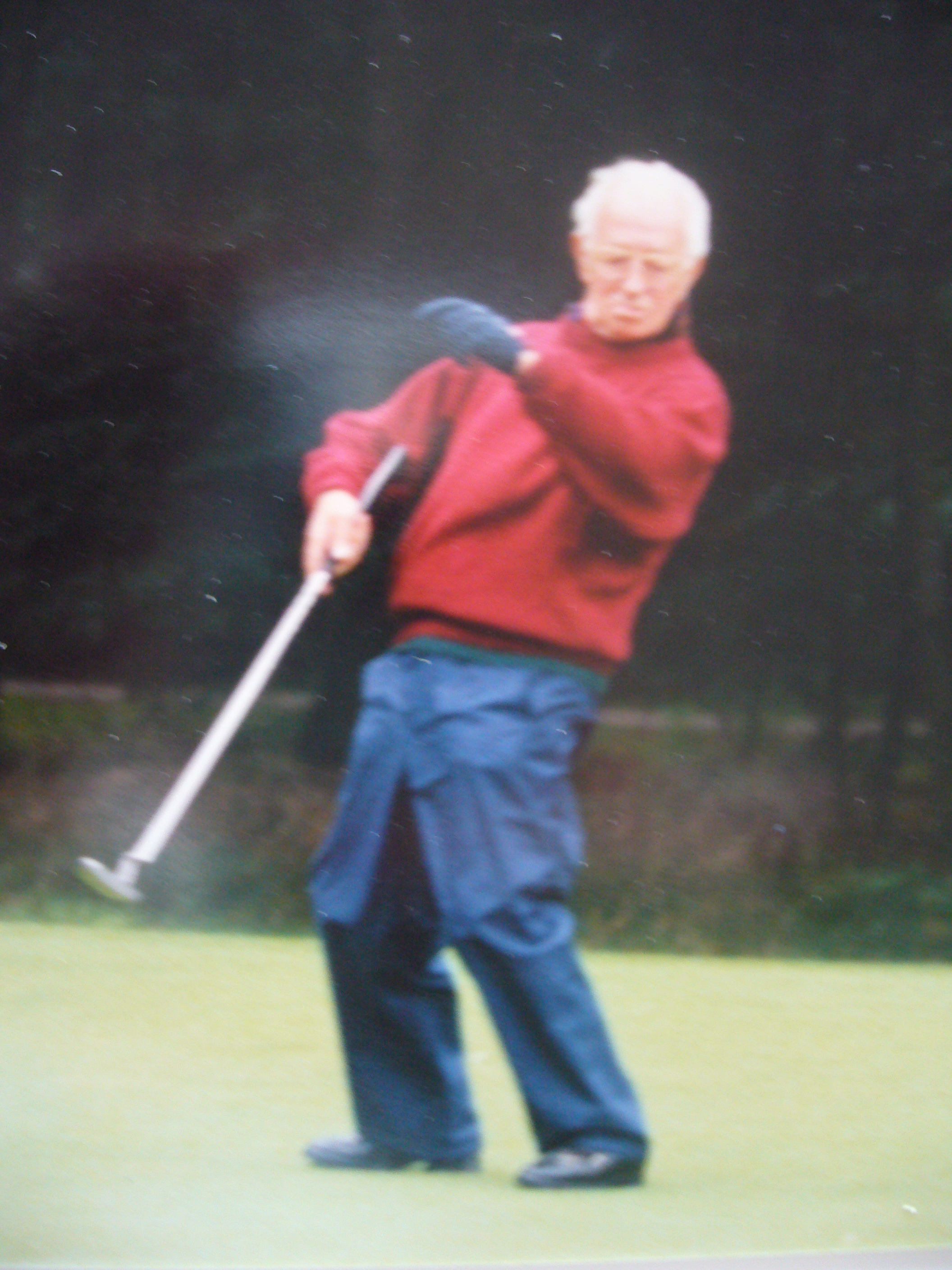 Piet Witte, Dutch golfprofessional, in 1990